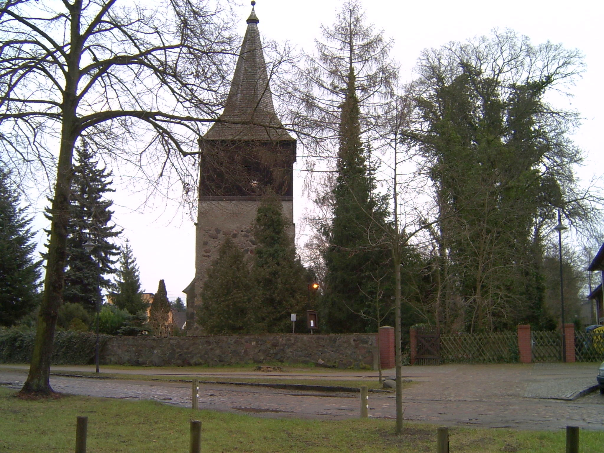 Schöneiche, Church